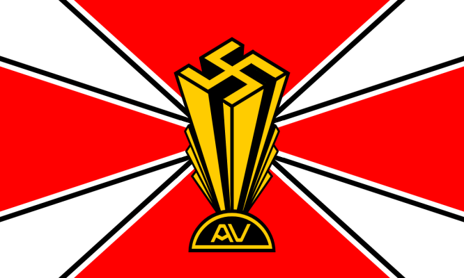 Flag of the German American Bund (AV), or "German American Federation," a pre-World War II American Nazi organization active in the United States between 1933-1941